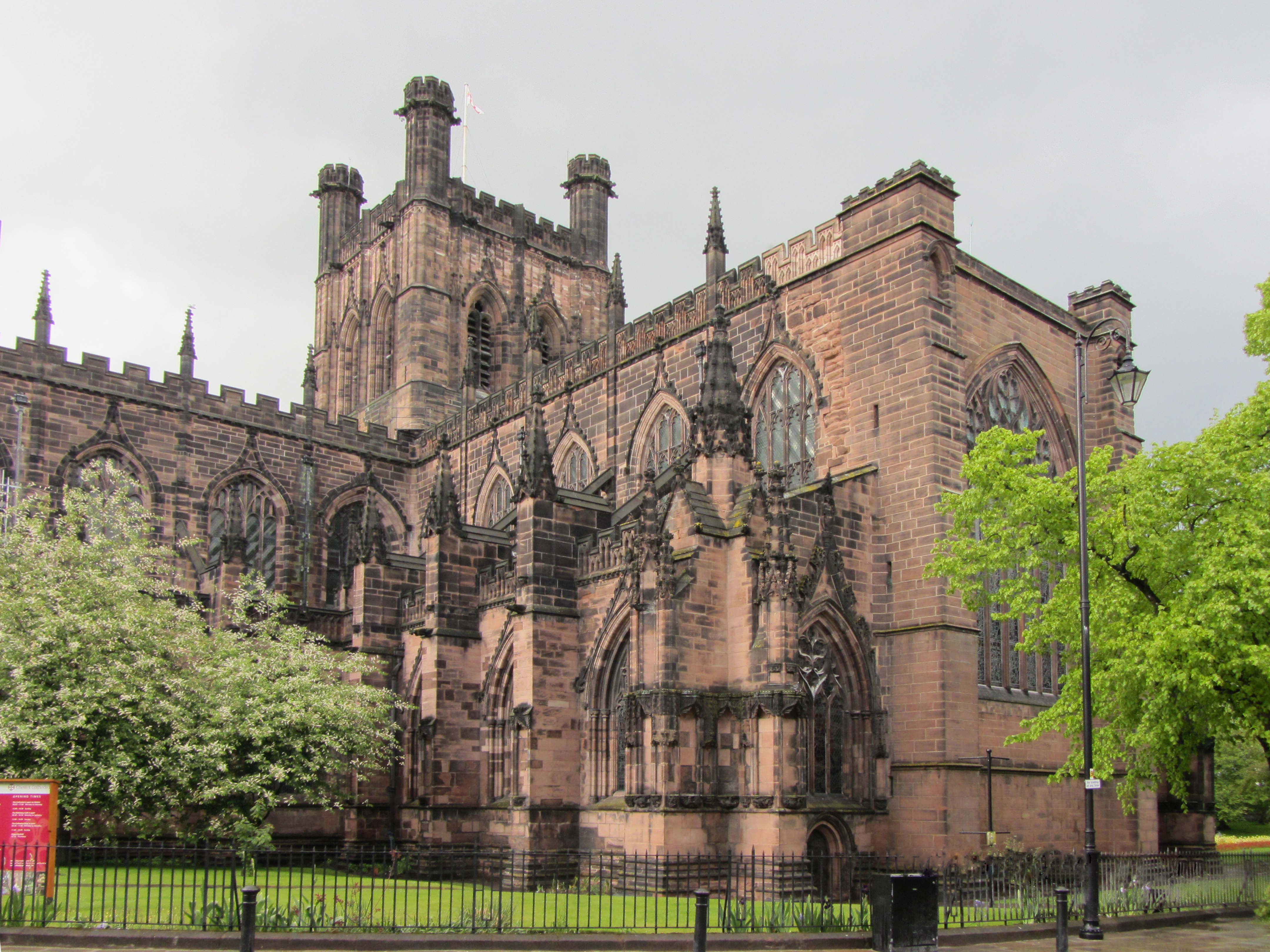 Chester Cathedral, England. The cathedral seen from the south-west looking towards the nave, left, and the unusually large south transept, right. The rebuilding of the nave and the building of the south transept commenced in the early 1300s, but ceased, incomplete, in 1375, and did not recommence until about 1485. The different building dates are revealed in the Flowing Decorated Gothic and Perpendicular Gothic window tracery.